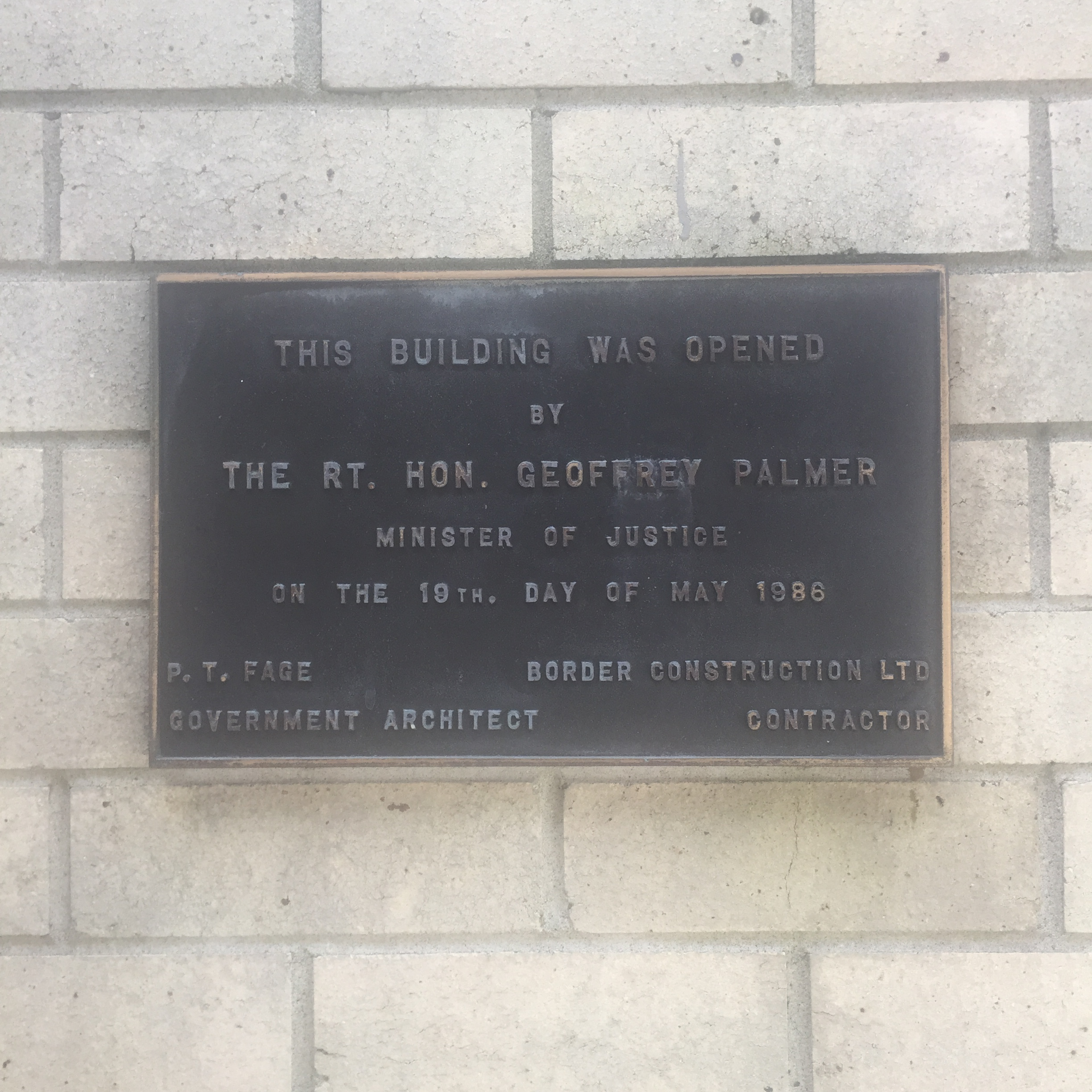 Plaque located at the main entrance to the counter area at the Papakura District Court, opened by Hon. Geoffrey Palmer on 19 May 1986.